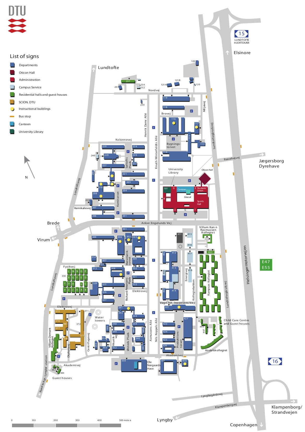 Map of the Technical University of Denmark in Kongens Lyngby, Denmark.